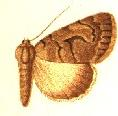 PLATE CCIII.